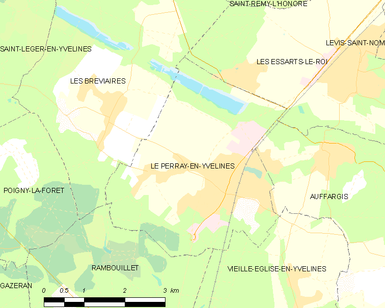 Map of French municipality Le Perray-en-Yvelines